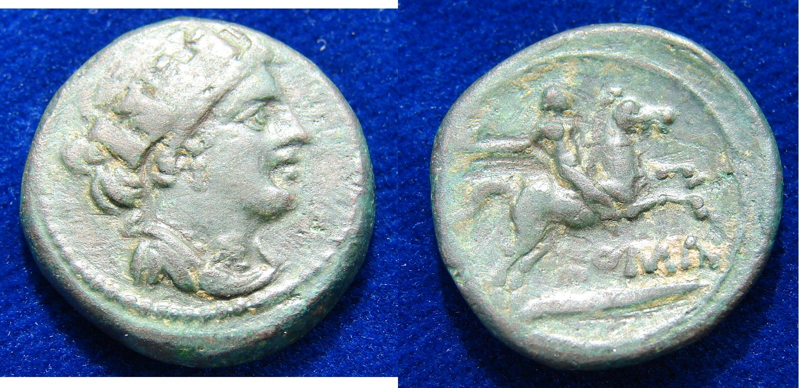 Roman Republic, Semuncia 217-215 BC, Æ 6.08 g. D. = 20 mm. Anonymous. Turreted and draped female head r. / Horseman r., holding whip in r. and reins in l. hand. 1 line below: "ROMA". Crawford 39 / 5. Condition: VERY FINE+, appealing dark green patina.